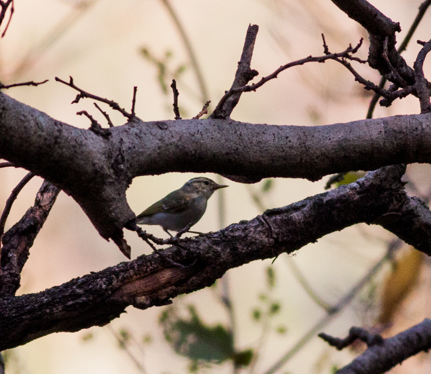 Western crowned warbler, captured from Vasai, Maharashtra.